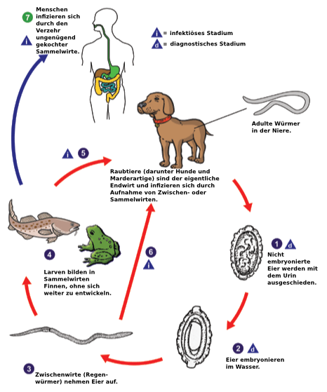 Life cycle of Dioctophyme renale, the giant kidney worm.